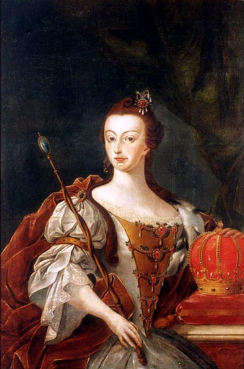 a rainha